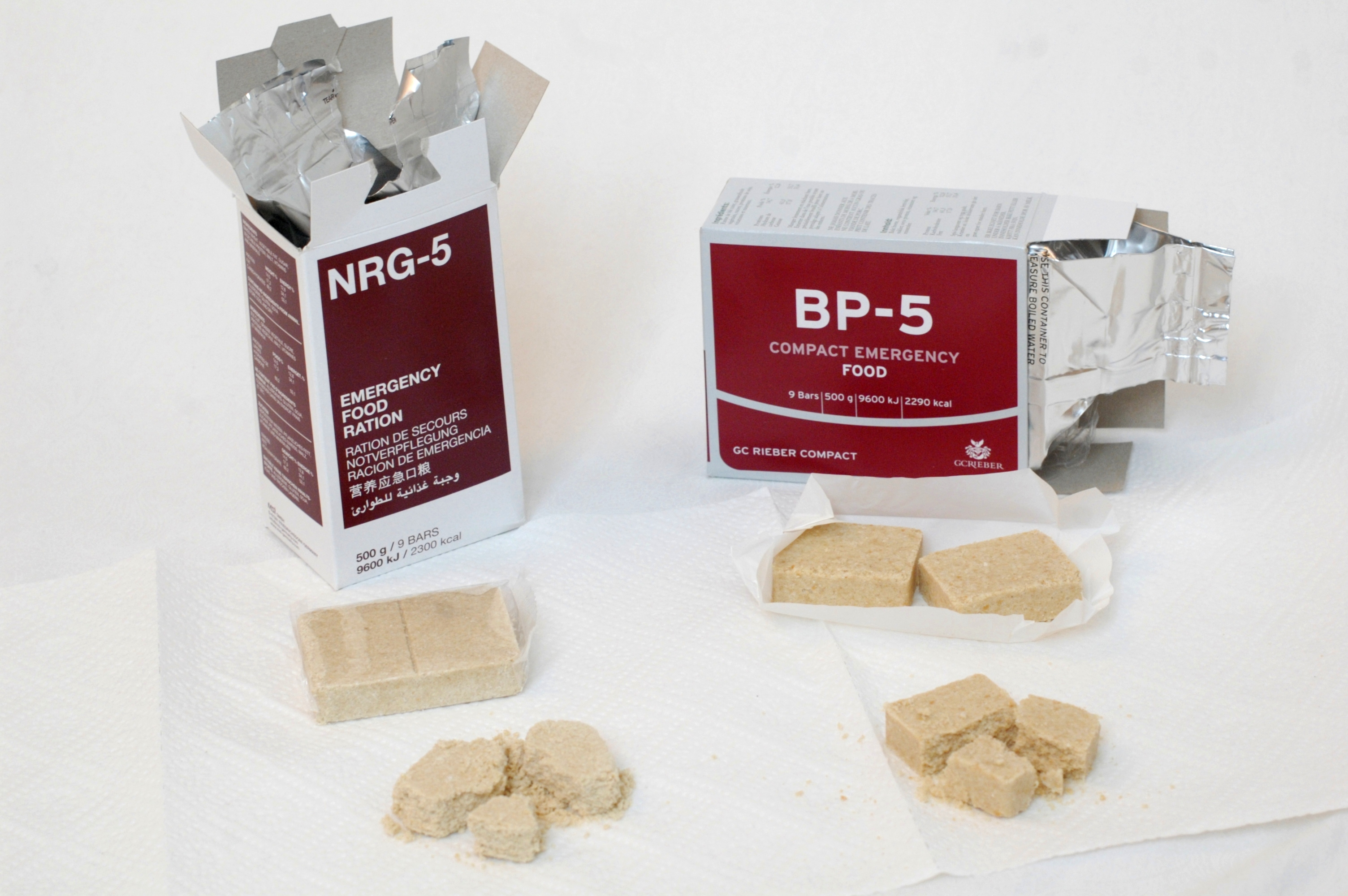 Detailed Comparison shot of two "compact emergency food" products, BP-5 (by Norwegian GC Rieber Compact) and NRG-5 (by German MSI GmbH). Shows opened packages, biscuit bars and partly crumbled biscuits.